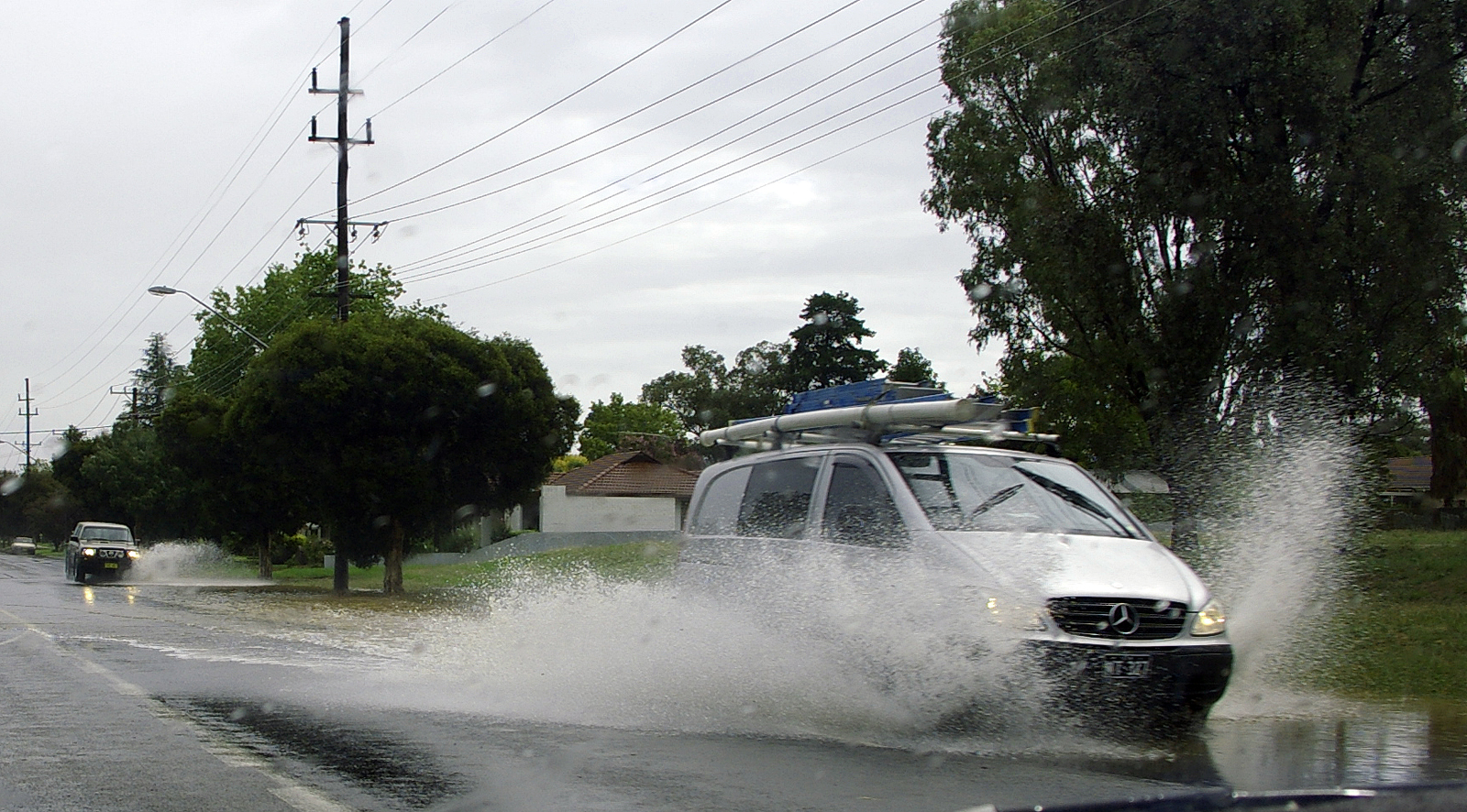 Two vehicle aquaplaning due to flash-flooding over Kooringal Road.